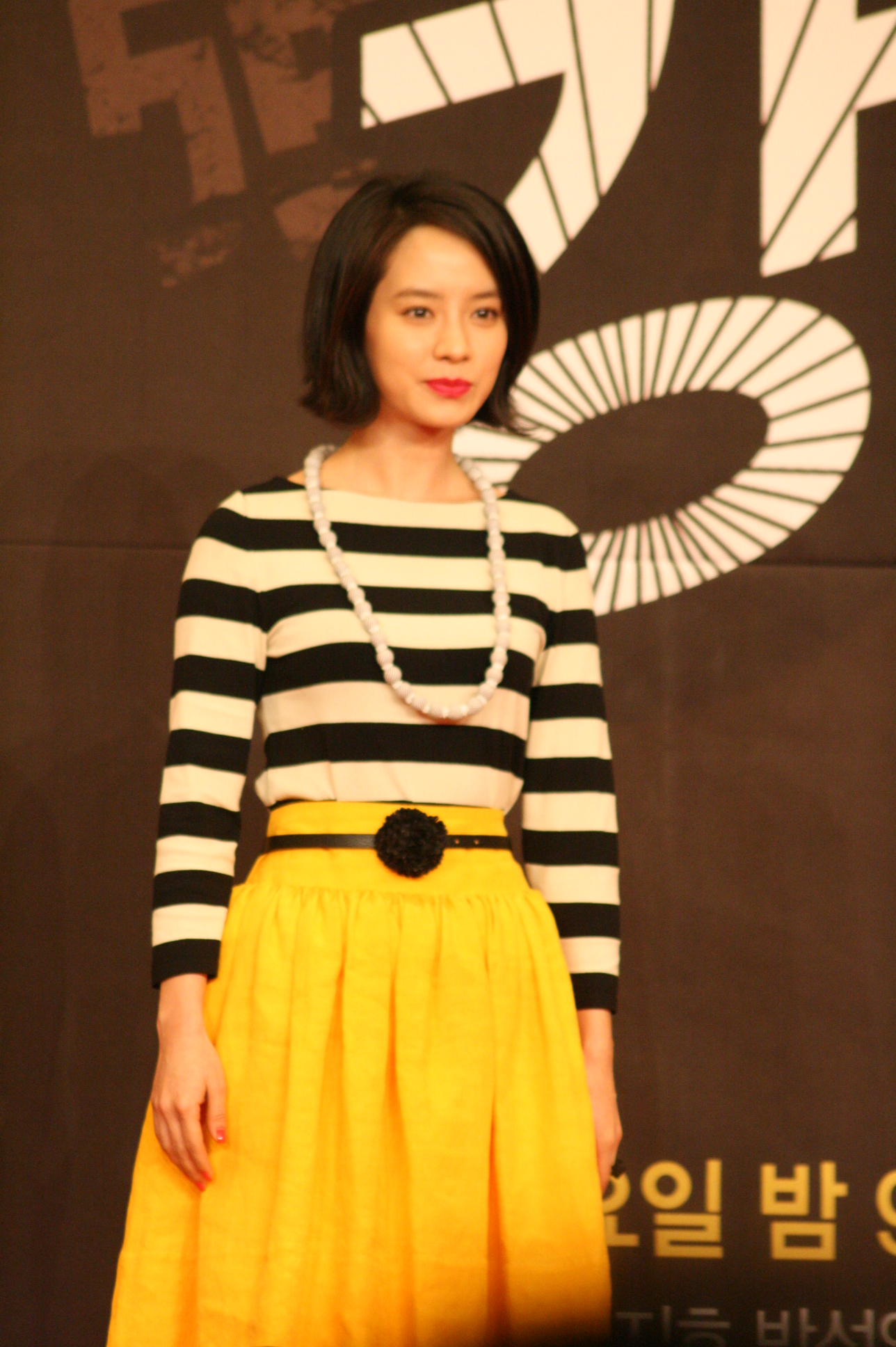 Song Ji Hyo in March 2011